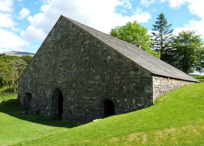 Bonawe Iron Furnace, Scotland